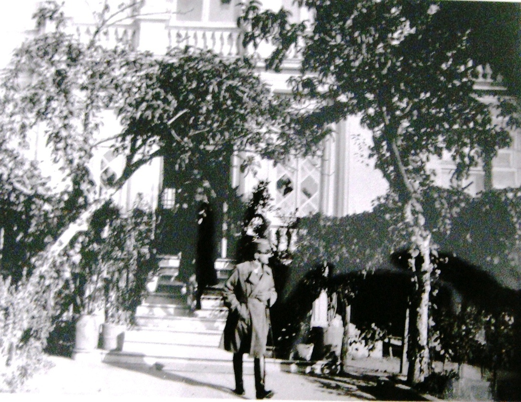 Yugoslav Prince Alexander get out of the building of the Metropolis in Bitola, 1912 or 1913 This media file is produced by Wikipedian in Residence in Category:Wikipedian in Residence at DARM in 2016.